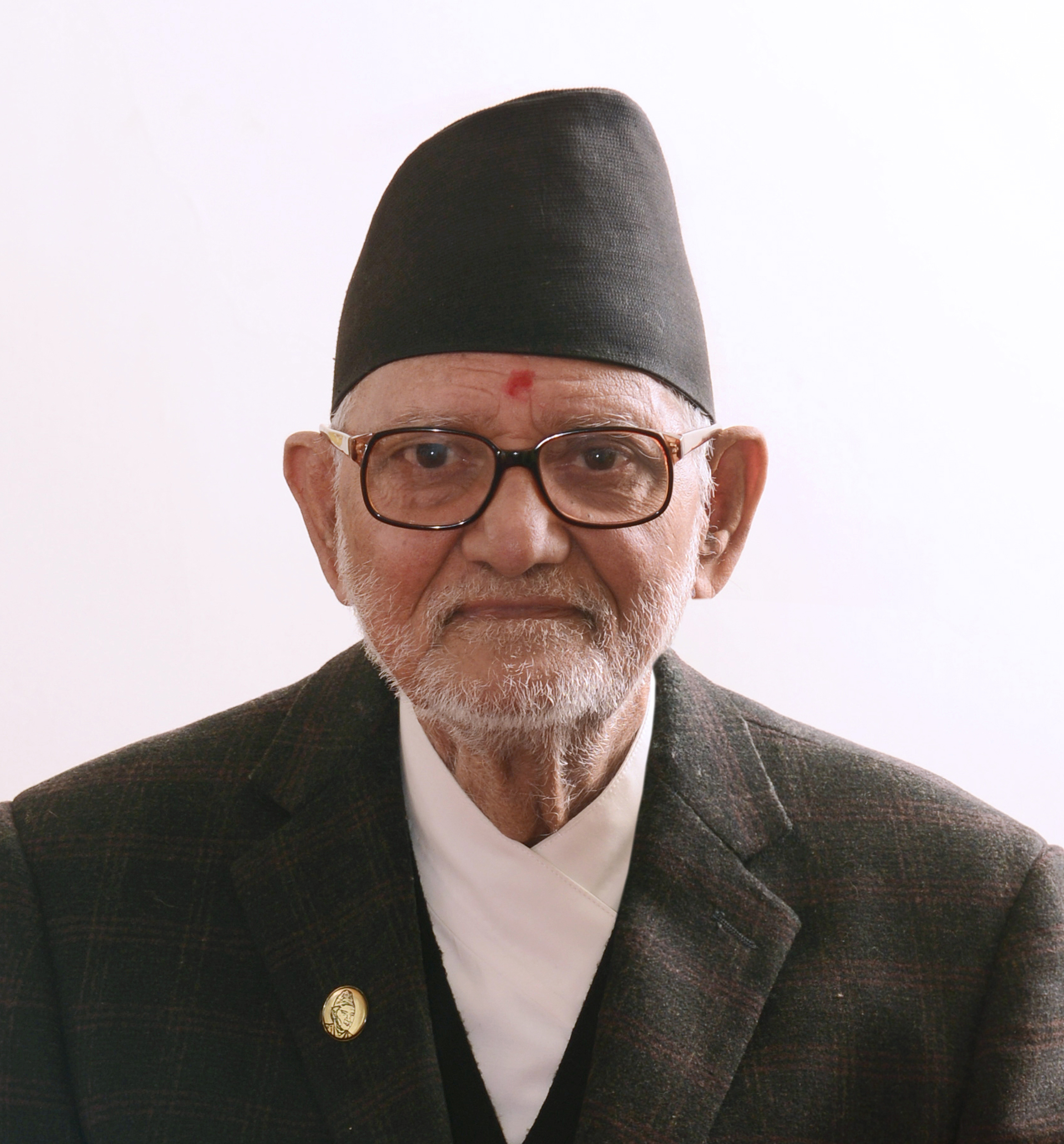 Sushil Koirala